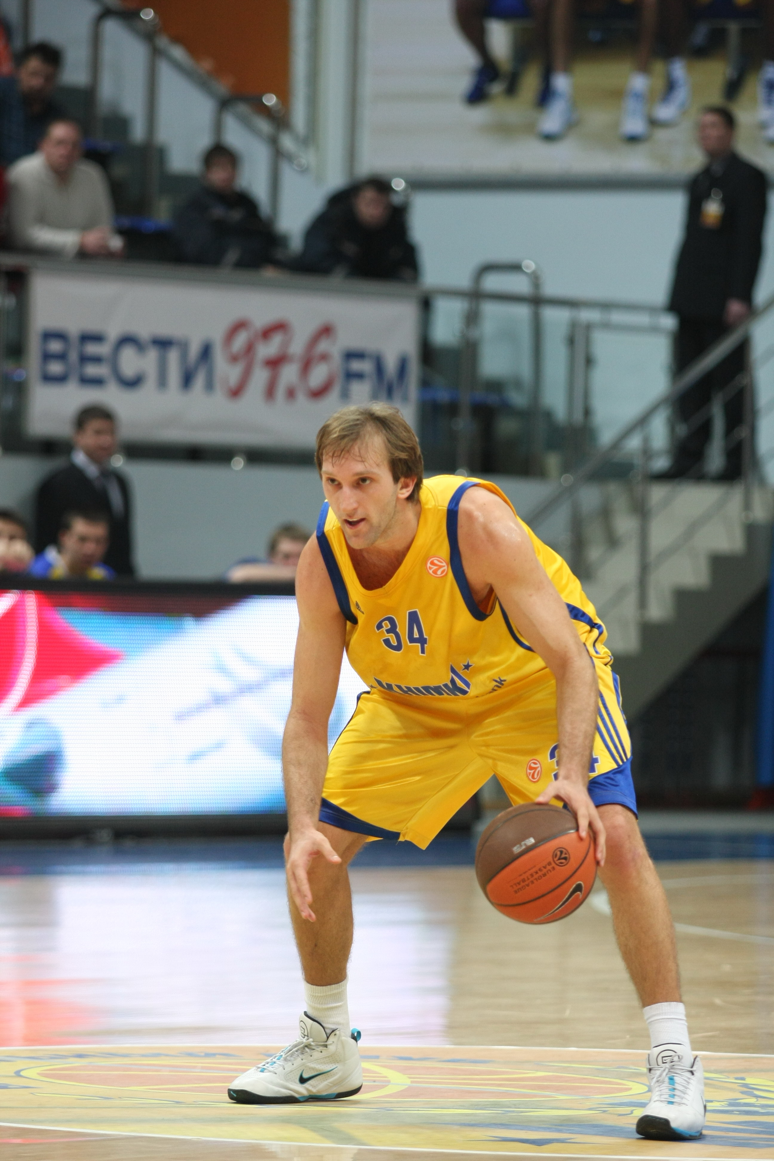 A BC Khimki guard Zoran Planinic